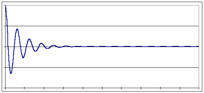 Strongly damped vibrations.